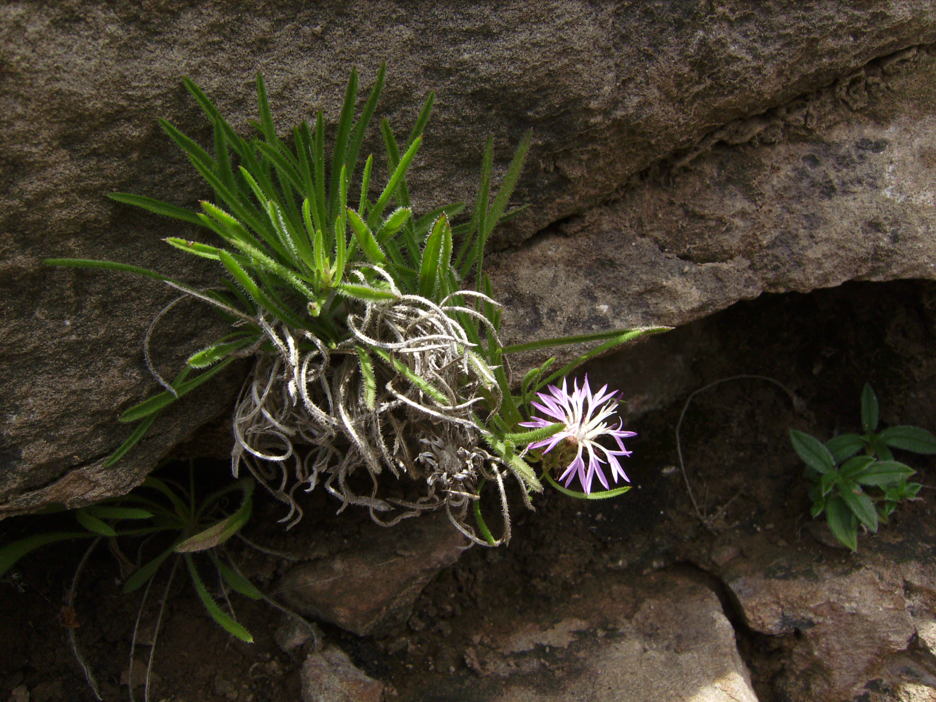 Centaurea linifolia between stones, Castelltallat;Catalonia